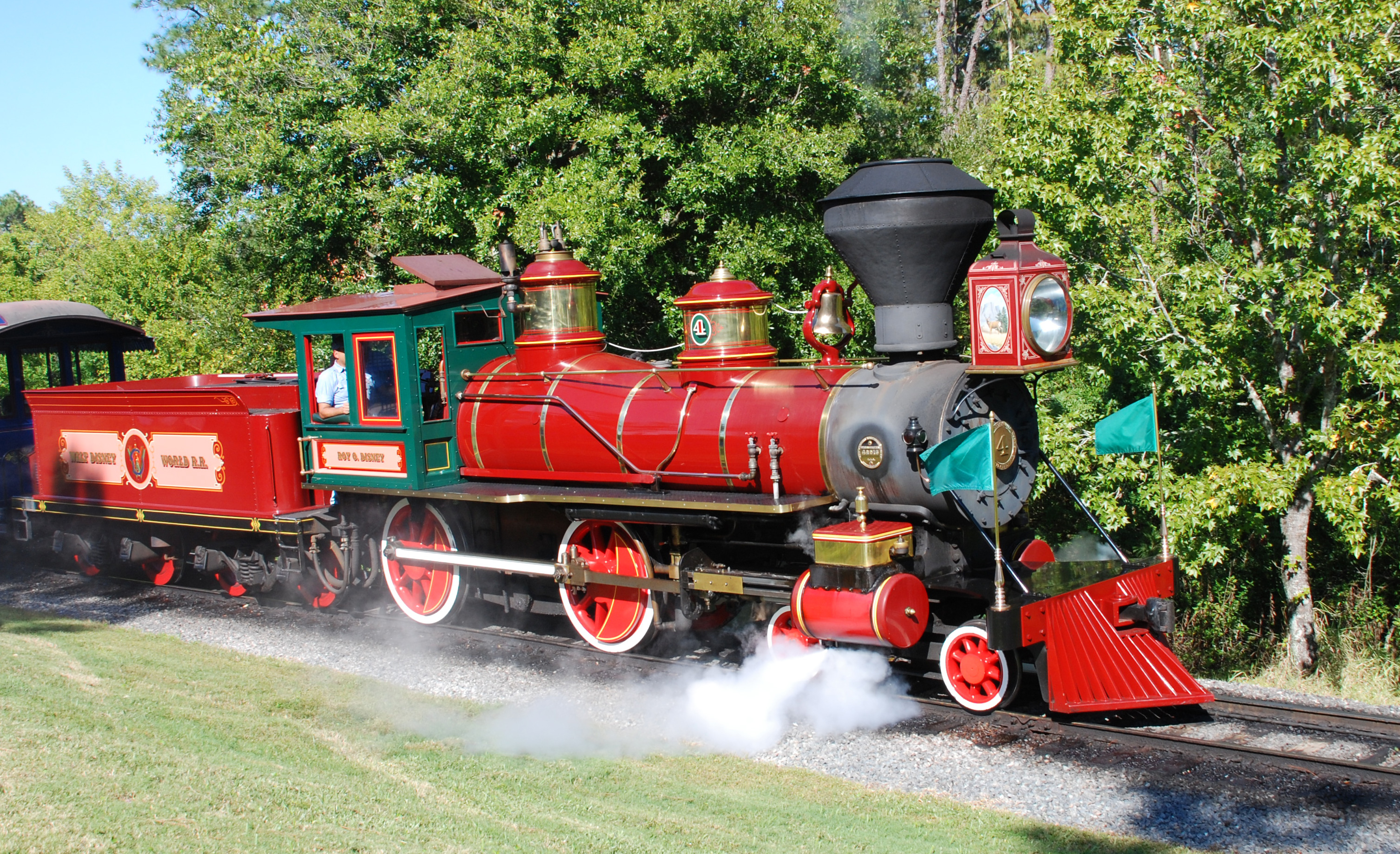 The Roy O. Disney pulling its 400 series blue coaches and blowing steam.